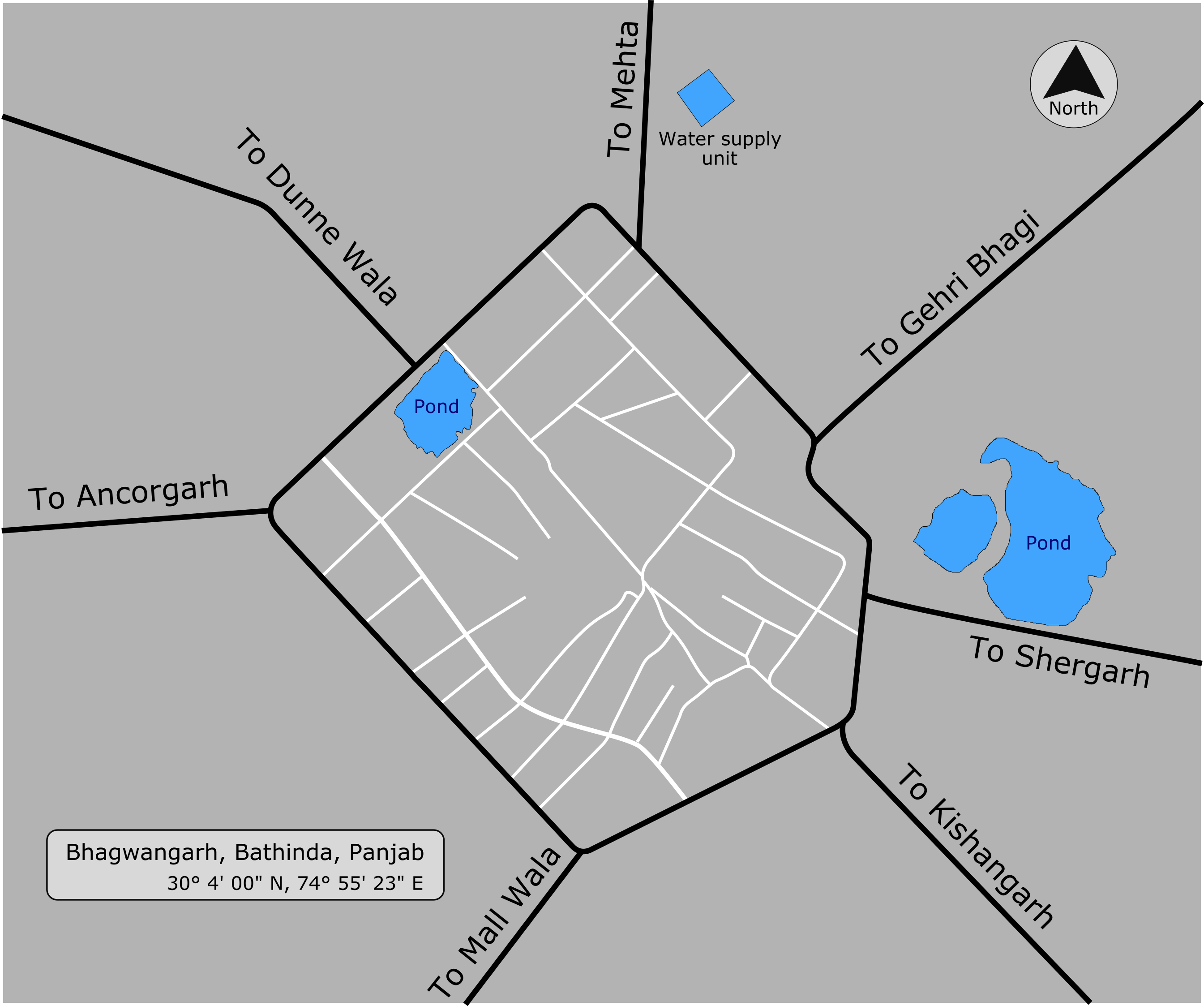 Map of village of Bhagwangarh (previously known as Bhukhianwali) in Bathinda district of Punjab, India.